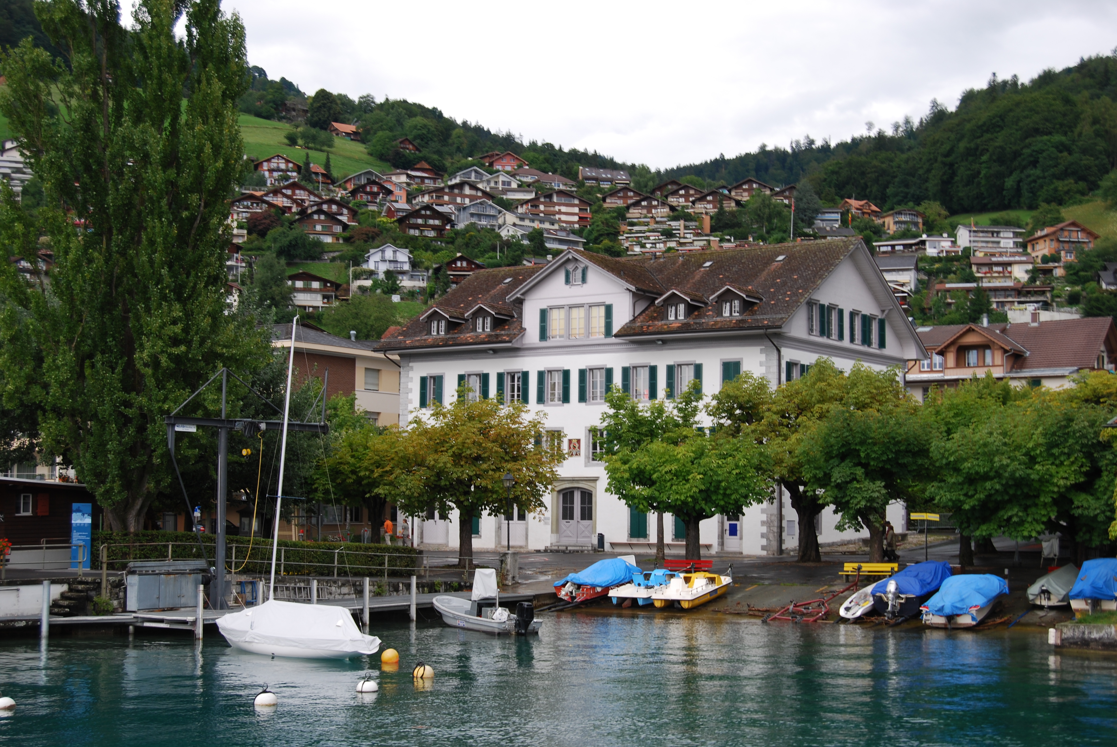 Oberhofen am Thunersee, canton of Bern, SwitzerlandEsperanto: Oberhofen ĉe Lago de Thun, Kantono Berno, Svislando